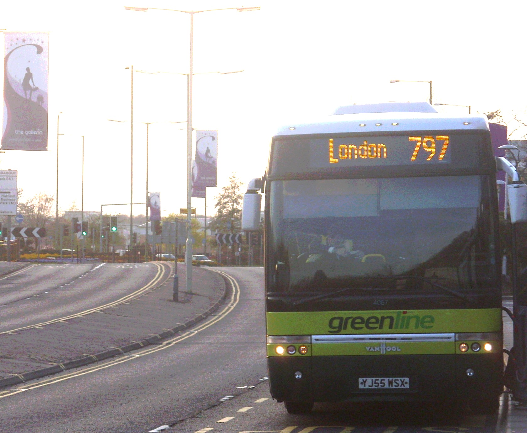 An Arriva the Shires and Essex coach on Green Line branded route 797 at The Galleria in Hatfield. The coach is a VDL SB4000 with Van Hool Alizée body, registration mark YJ55 WSX.